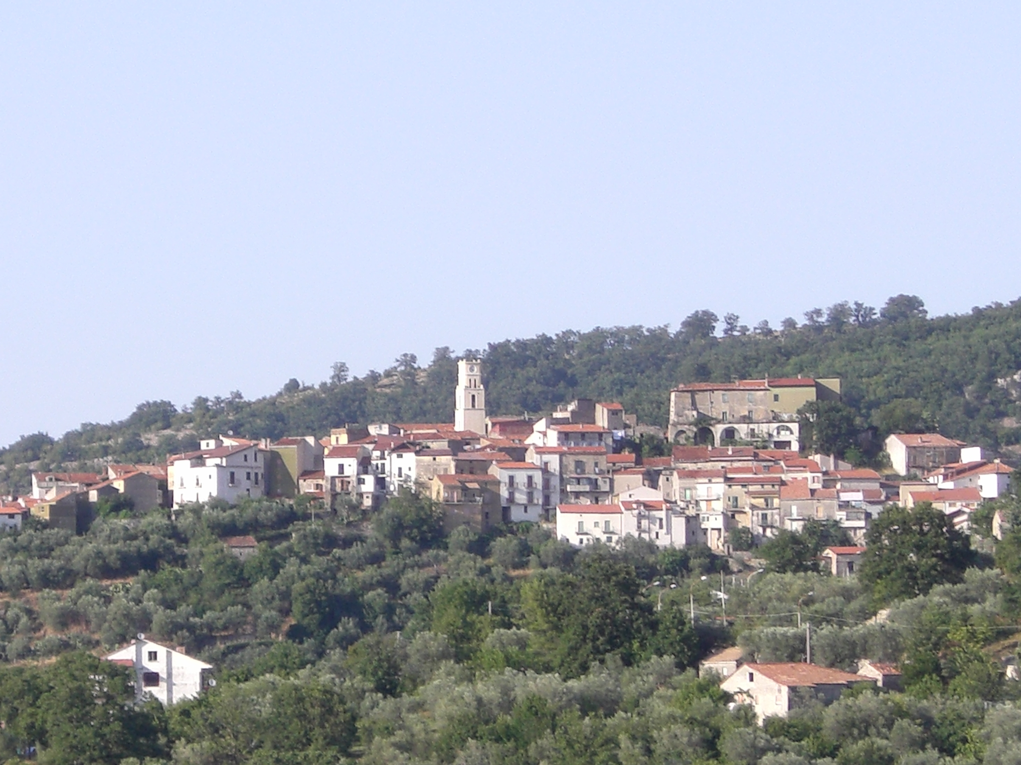 Village Campora Regione Campania Salerno